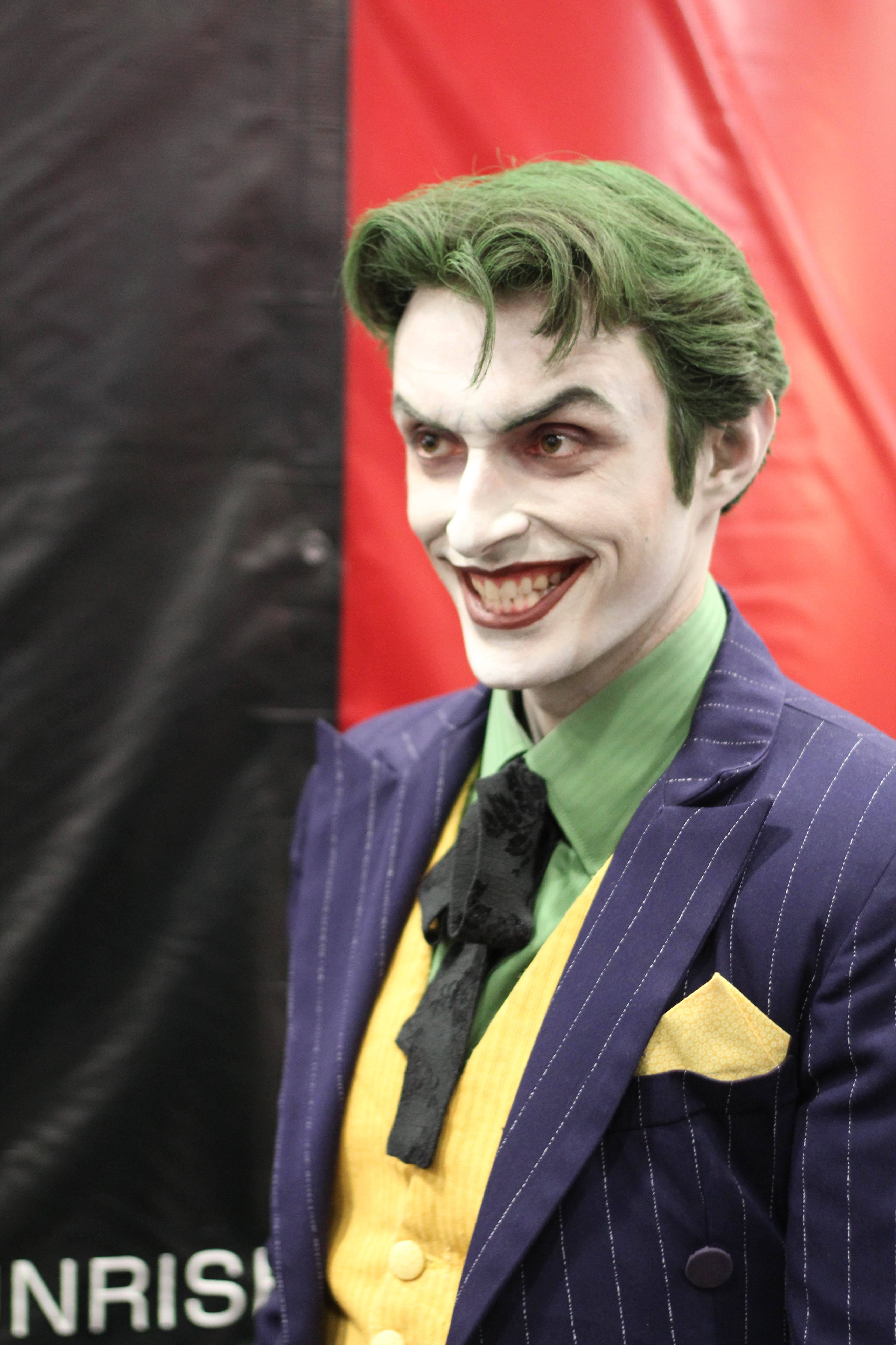 Joker! Anthony Misiano cosplaying as The Joker at SDCC 2012.